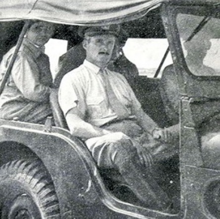 Alcides López Aufranc (Blue army). Argentine Colonel. Blues vs Reds (Azules y Colorados) Picture taken at April 3rd 1963, when Blue forces were atacking Naval base of Punta Indio.